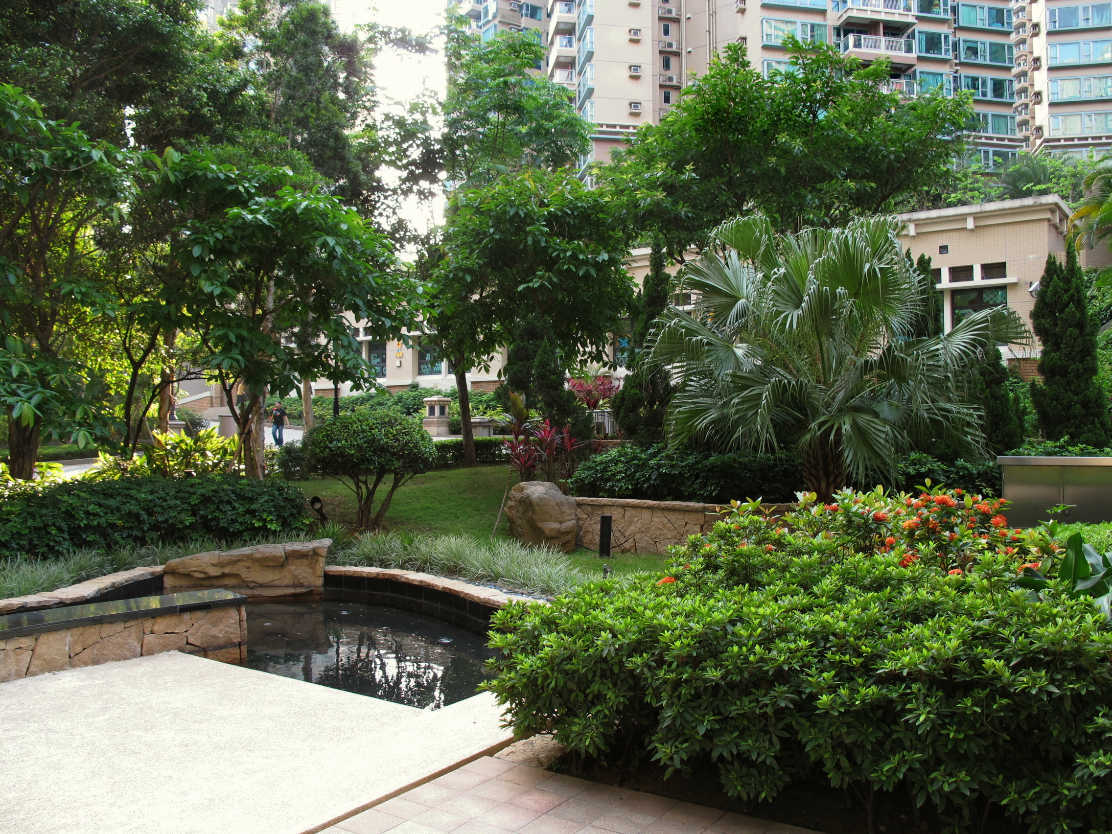 Park Island Landscape area